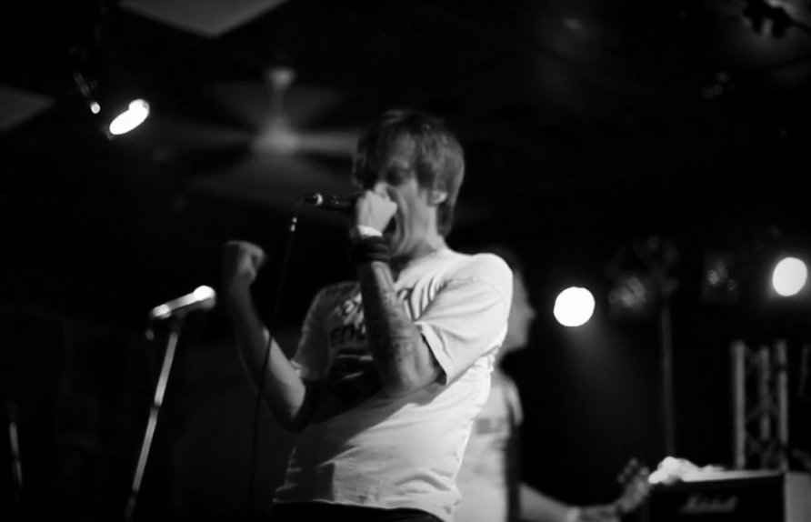 Dennis Lyxzén performing with AC4 at The Zoo in Brisbane Australia April 2011